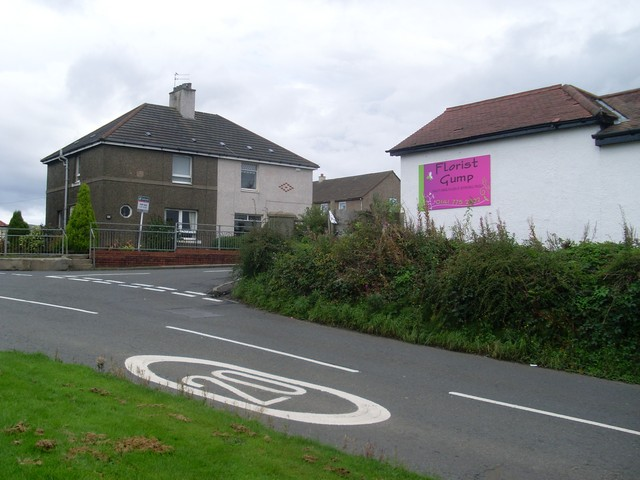 Florist Gump Humorously-named flower shop on Loch Road, Kirkintilloch.